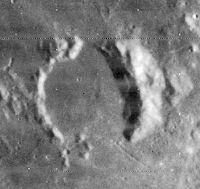 Sömmering lunar crater remnants at image LOIV-109-H1